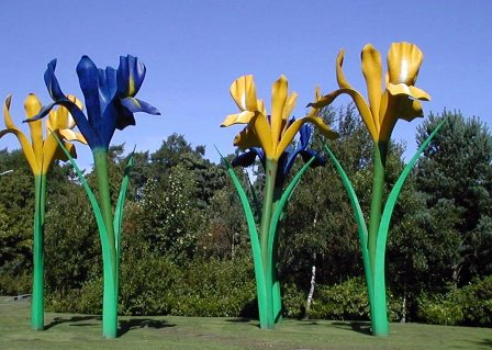 Sculpture of giant irises (1988) by Malcolm Robertson in Glenrothes